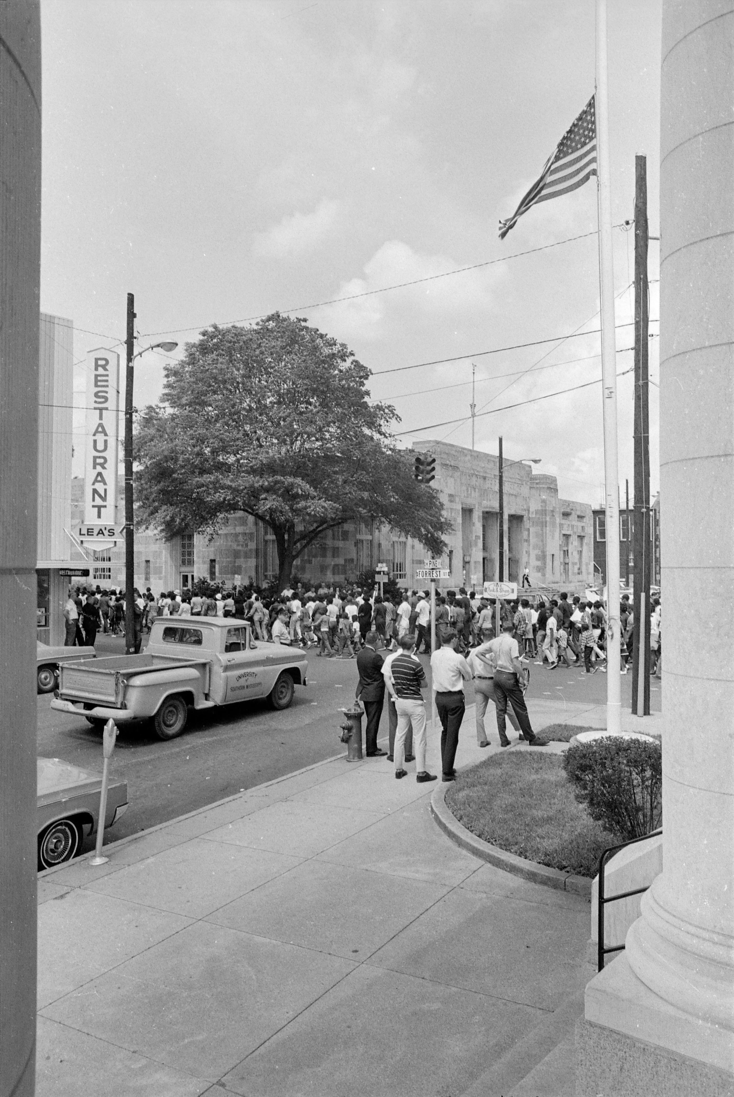 Collection: Moncrief Photograph Collection Call number: PI/1994.0005 System ID: 95242. Link to the catalog April 8, 1968, Hattiesburg (Miss.) march in memory of Dr. Martin Luther King Jr., four days after his death. According to a Hattiesburg American article that day, approximately 1,500 marchers started at East Sixth and Mobile Streets, stopped at City Hall for a prayer service, continued to the Forrest County courthouse for a silent prayer, then returned to East Sixth and Mobile Streets. The march coincided with a week-long boycott of schools and white-owned businesses and a 3-day work stoppage. Please see our profile page for information on ordering. Scanned as TIFF in 2005-07-27 by MDAH. Credit: Courtesy of the Mississippi Department of Archives and History